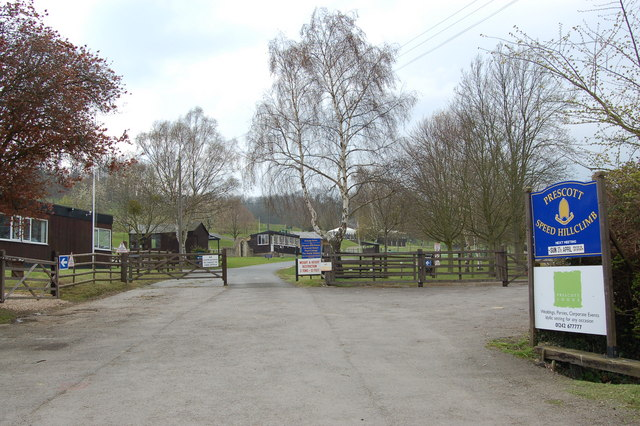 Prescott Hillclimb This is the main entrance to Prescott Speed Hillclimb.